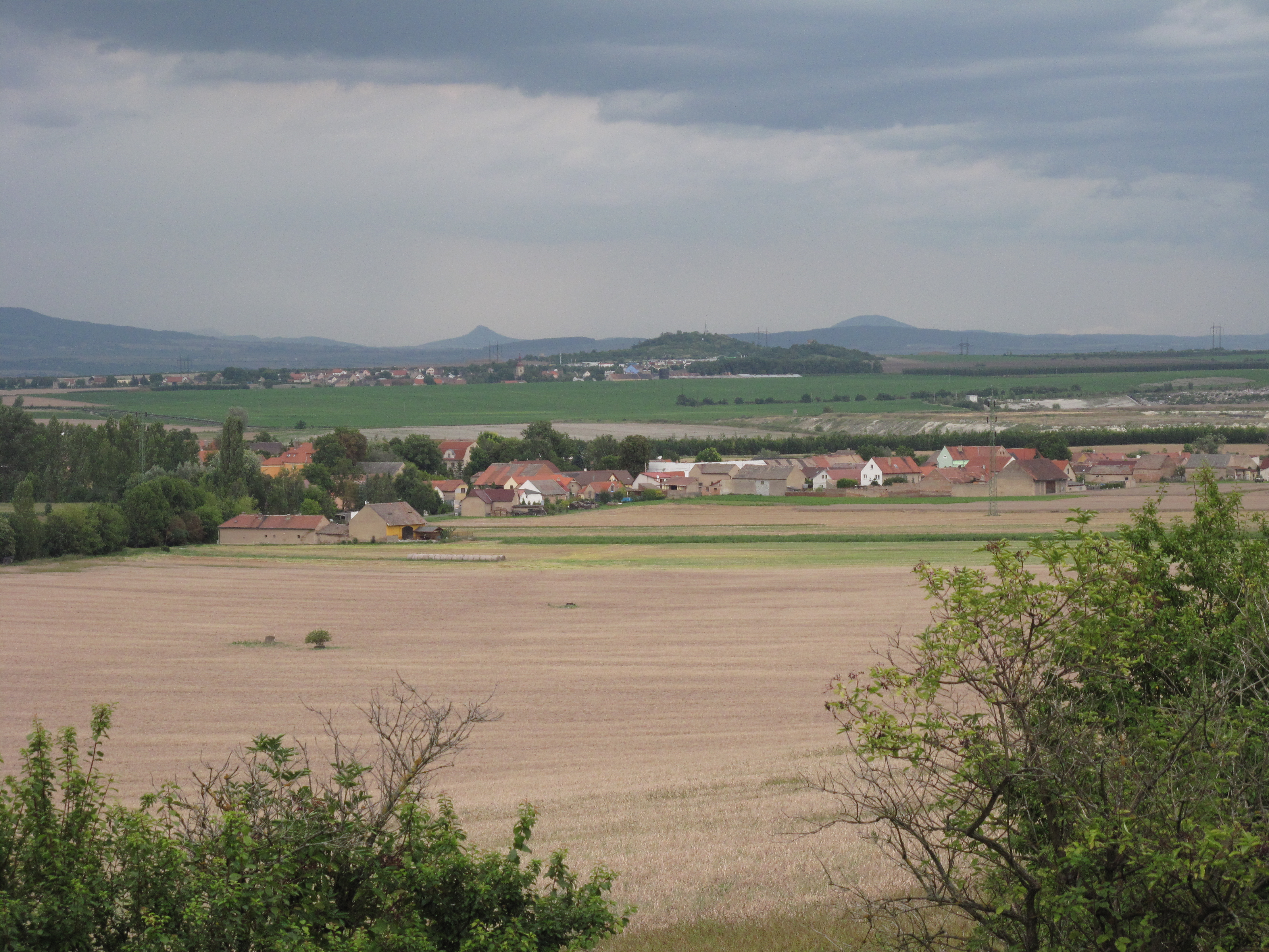 Úpohlavy village as seen from southwest, Litoměřice District, Czech Republic.